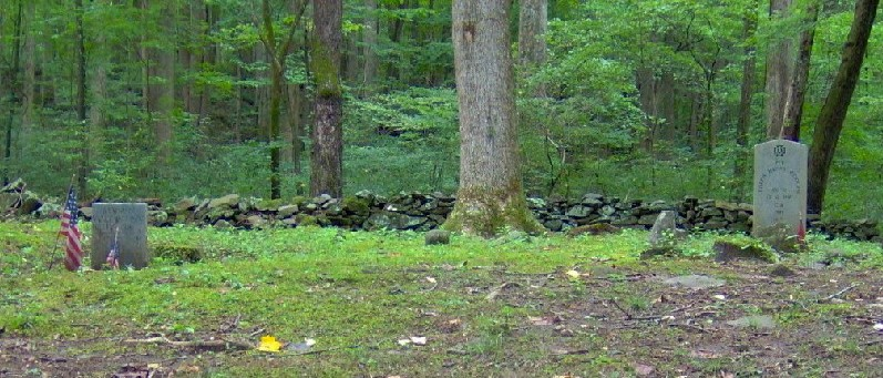 Cole Cemetery near the heart of the Sugarlands, GSMNP, in East Tennessee. An American flag has been placed on the grave of Vance Newman, who supported the U.S. in the U.S. Civil War. A Confederate flag has been placed over the grave of Henry Dodgen, who fought for the Confederacy. This cemetery is located just off the "Quiet Walkway" opposite the Huskey Gap Trailhead on US-441.